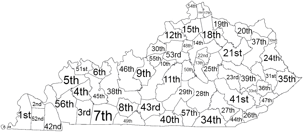 Map of Kentucky judicial circuits